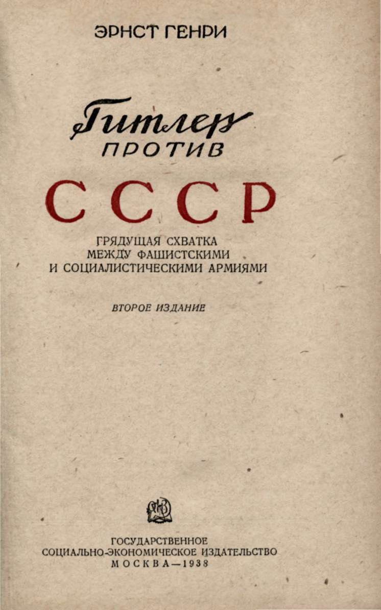 First page of the Henry Ernst broshure 'Hitler vs. USSR. Future combat between the fascist and socialist armies', second edition translated from English issued by State social-economic publishing house, Moscow, 1938.